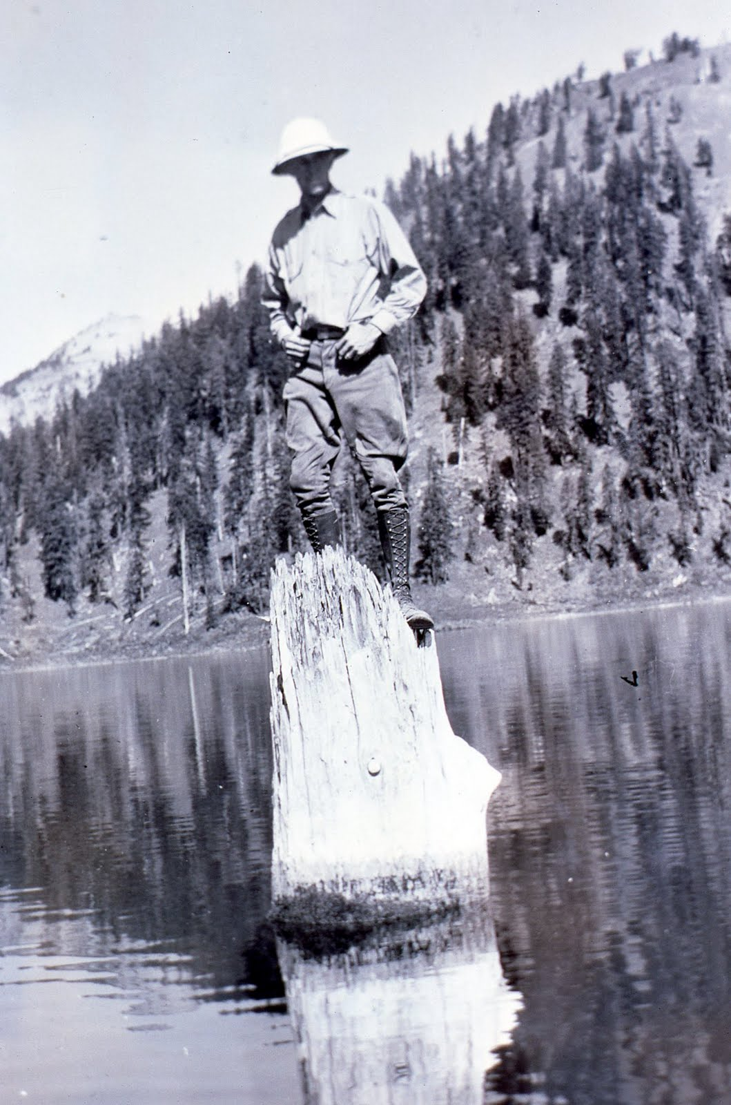 Where Can We Find the World’s Oldest (vertical) Floating Log? Why, right here in Crater Lake! The Crater Lake Institute carries an Historic 1938 era NPS photo postcard of The Old Man: an NPS 1938 Photo View, (perched atop is Loren Miller, son of Loye H. Miller, first Naturalist at CRLA in 1926. Loye became well known as a scientist at La Brea Tar Pits, Los Angeles, Calif